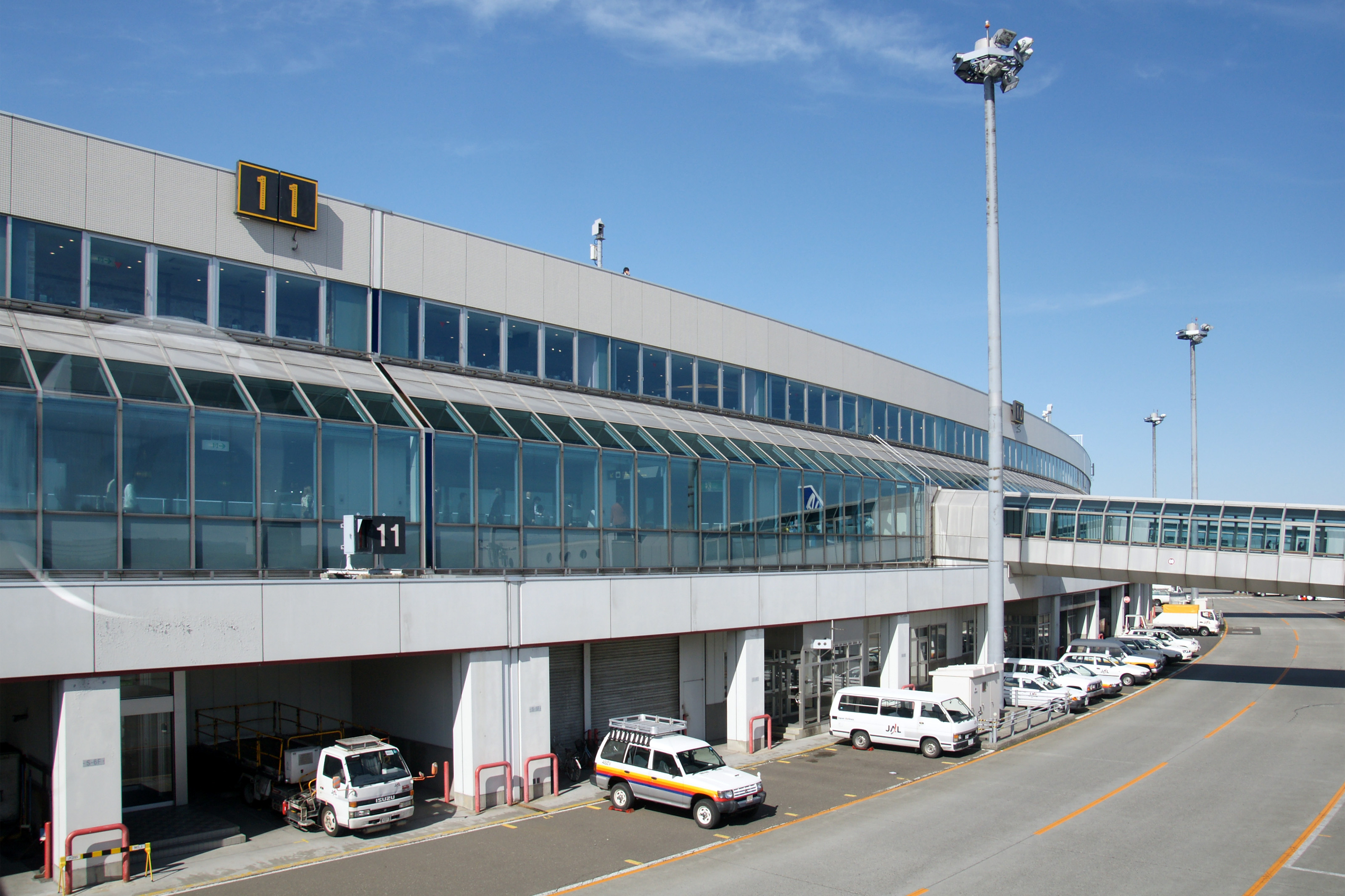 New Chitose Airport, Chitose, Hokkaido prefecture, Japan